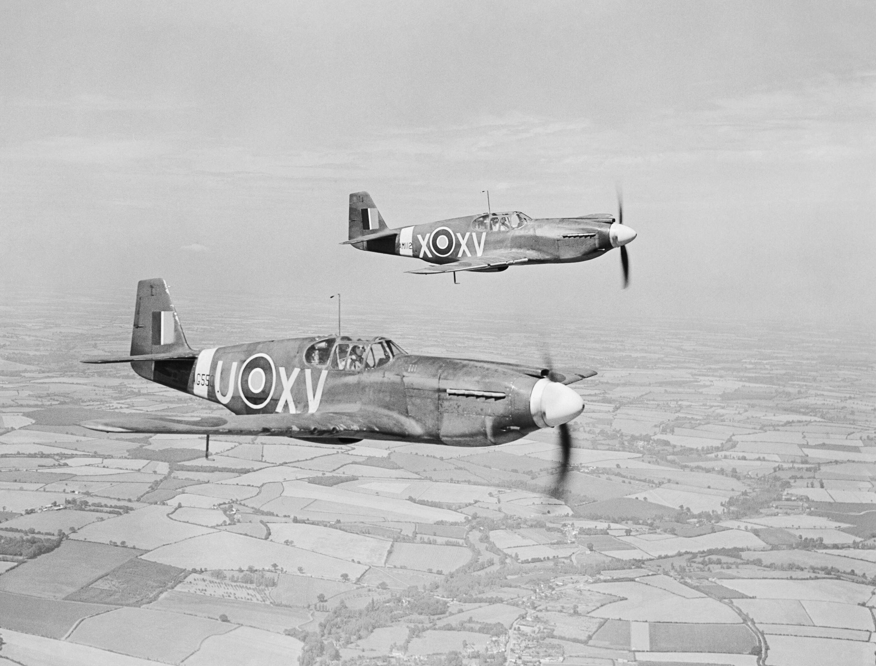 Two Royal Air Force North American Mustang Mark Is (AG550 ‘XV-U’ and AM112 ‘XV-X’) of No. 2 Squadron RAF based at Sawbridgeworth, Hertfordshire, in flight over Cambridgeshire (UK). AG550 is being flown by Wing Commander A.J.W. Geddes, the squadron commander.